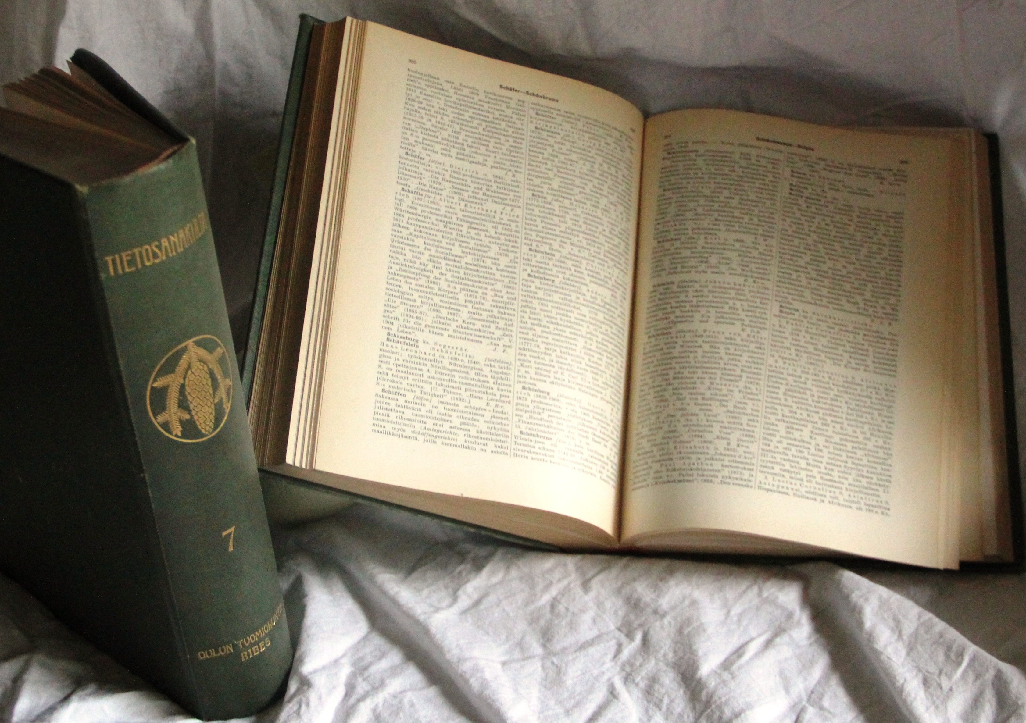 Tietosanakirja ('Encyclopaedia') published by Tietosanakirja Osakeyhtiö, parts 7 (1915) and 8 (1916)